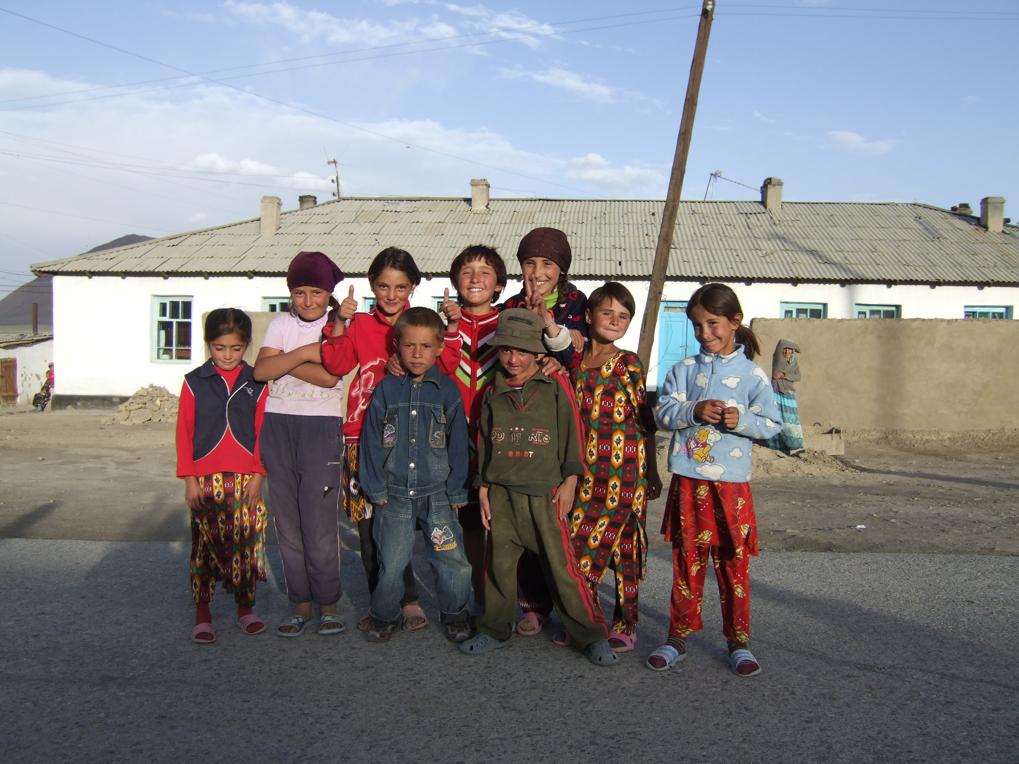 Murghab village, Tajikistan.